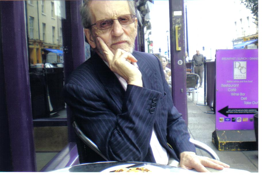 Good to meet you … Brendan Lynch